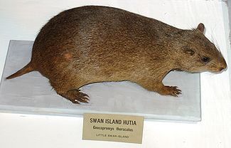 This is a photograph of a Little Swan Island hutia (Geocapromys thoracatus). This photograph is from the Harvard Museum of Natural History / Peabody Museum. Although no copyright has been asserted for the subject matter or this image, the museum's photography rule is as follows: "No commercial photography or video cameras permitted in the museum without written permission." [Museum pamphlet, May 2007.]